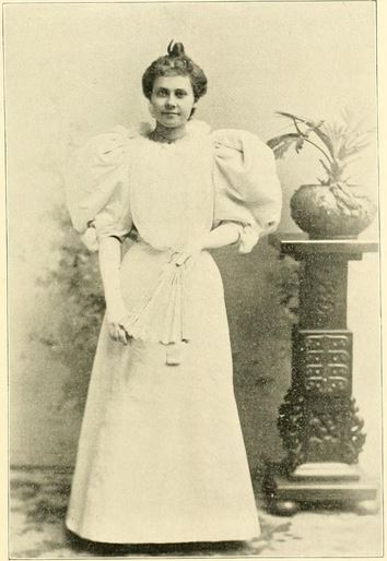 Ethel McRae